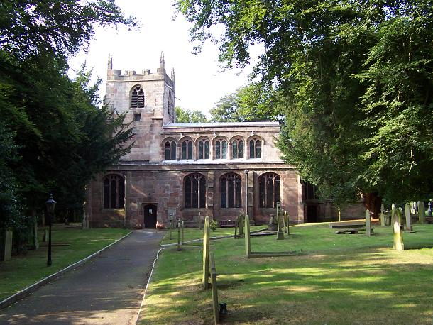 Photograph